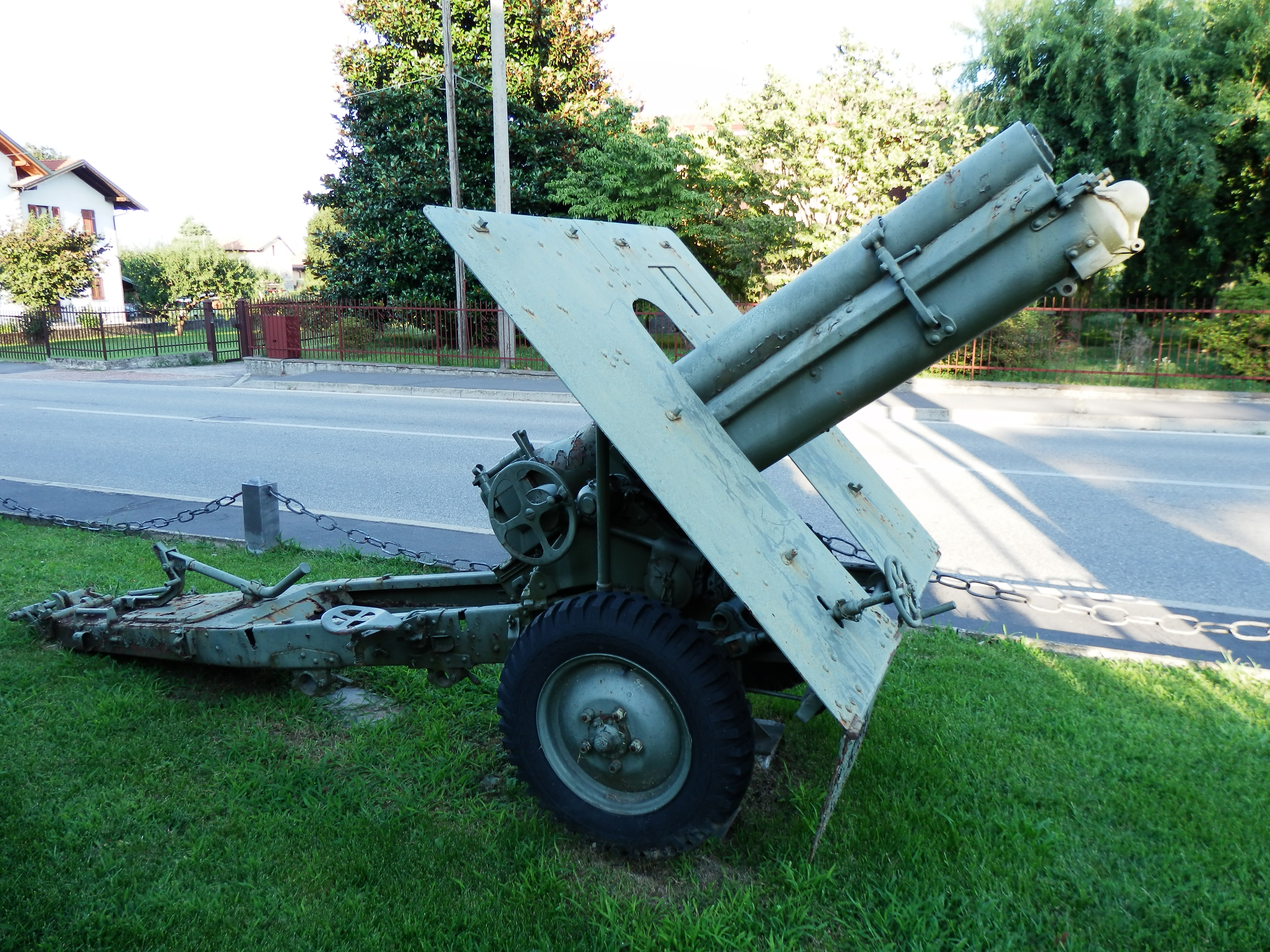 War memorial. via Marconi, Ispra (Varese, Italy). It should be a Skoda 100 mm Model 16/19, but I am not sure.